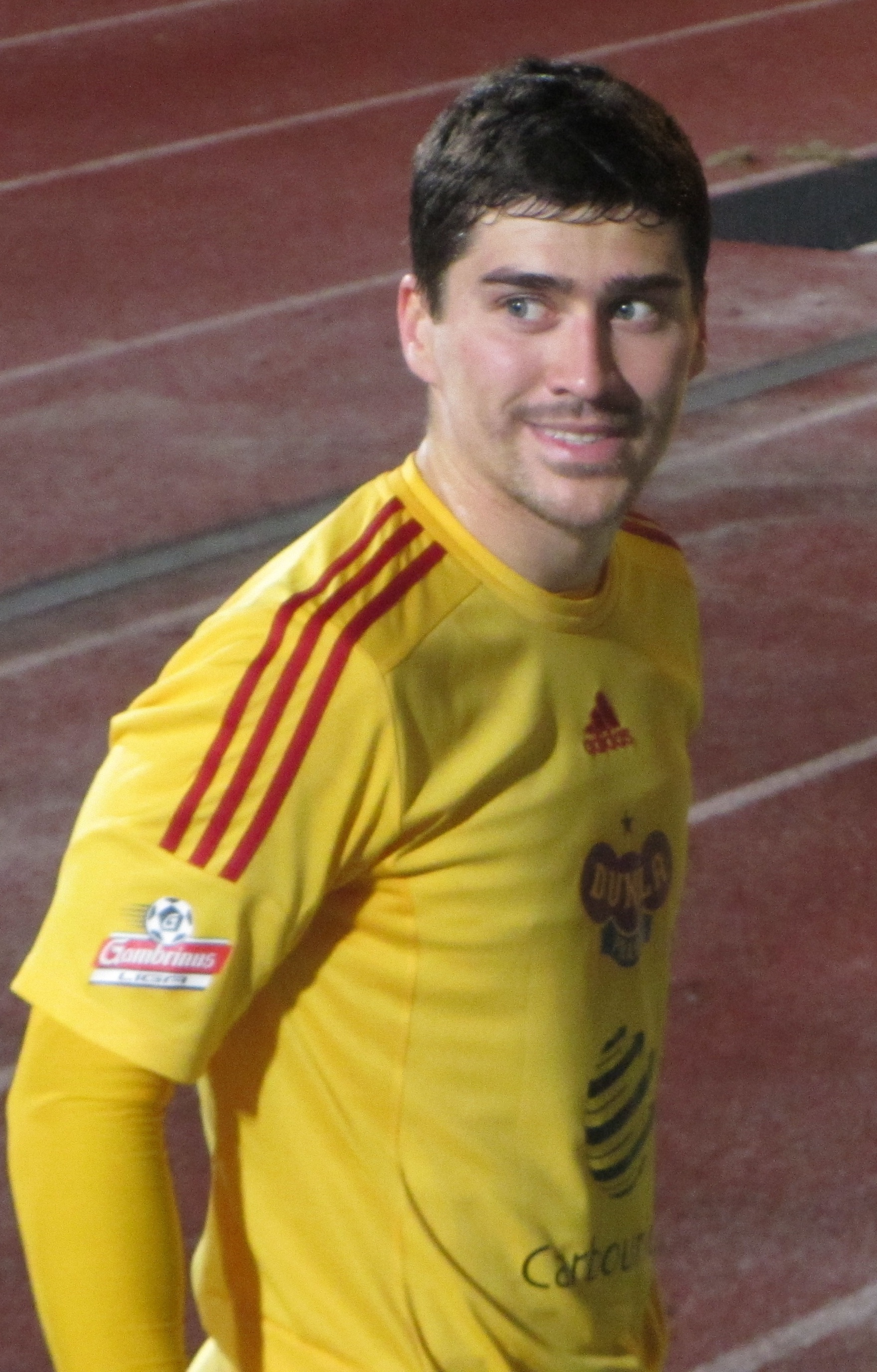 Vojtěch Engelmann (FK Dukla Praha) after the match against FK Teplice